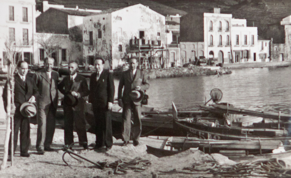 Taken on March 4, 1933, this are members of the Atenea cultural association of Figueres taking Pompeu Fabra on a day trip to Port de la Selva, Alt Empordà, Catalonia. In the center is Pompeu Fabra and second from the right is Carles Varela, a local Catalan linguist from Figueres. The other three gentlemen are unknown.